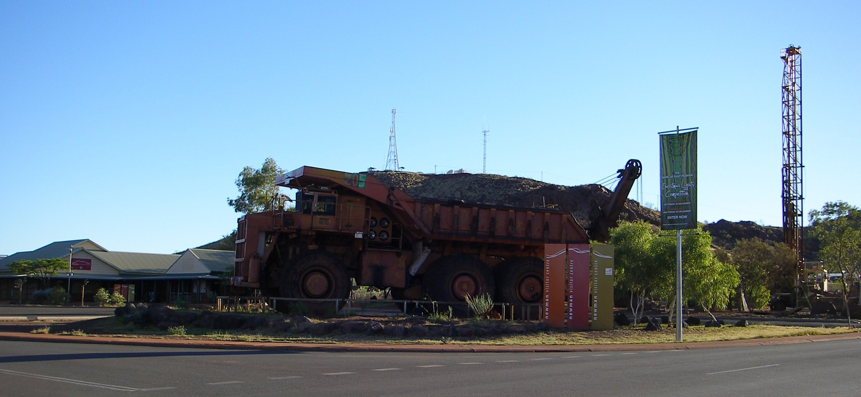 Newman, Western Australia